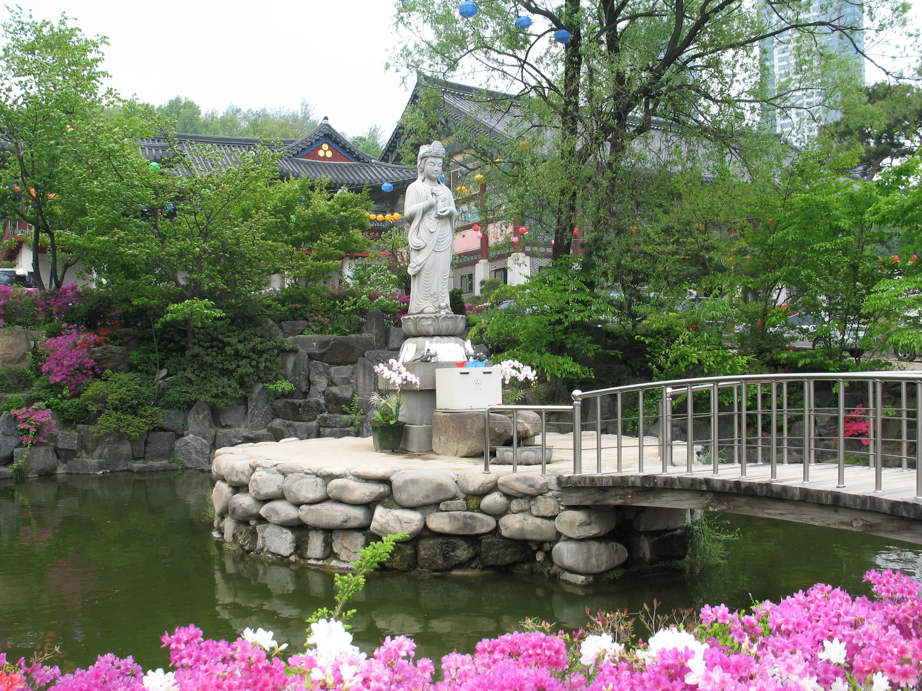 Bongeunsa, a Buddhist temple of Jogye Order located in Samseong-dong, Gangnam-gu, Seoul, South Korea.